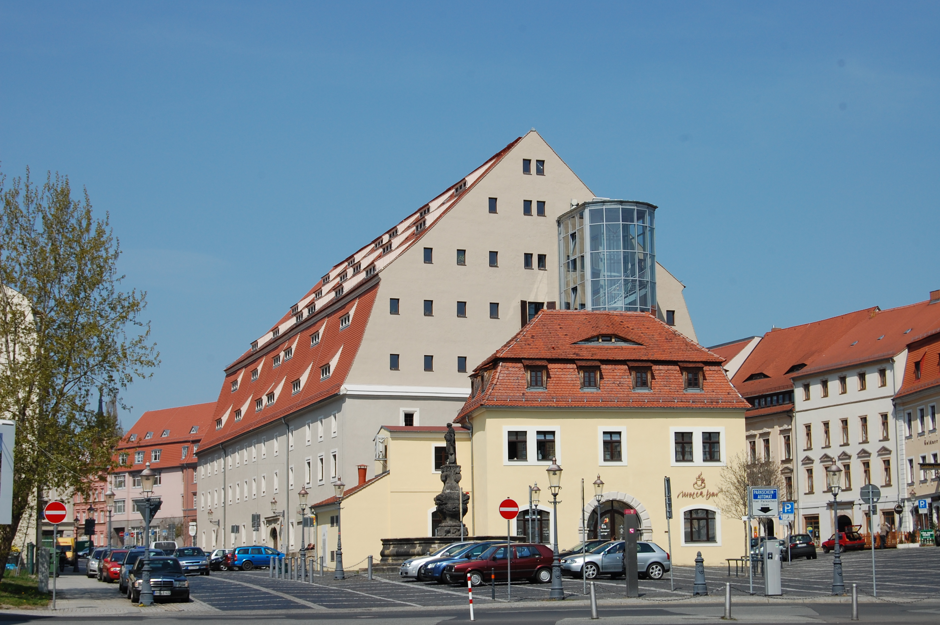 House in Zittau's Neustadt, Germany. Česky: Dům v Žitavě v části Neustadt, Německo.